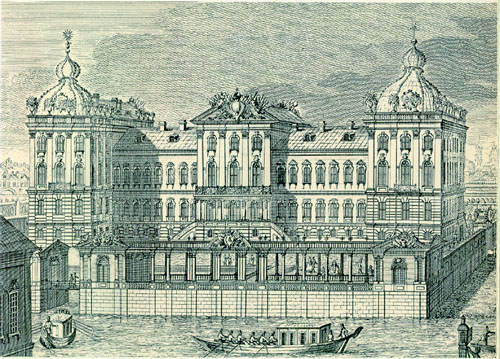 Anichkov Palace, St Petersburg in the 18th century